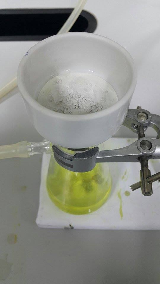 Vacuum Filtration process to obtain pure solid crystals from a mixture of three solids.